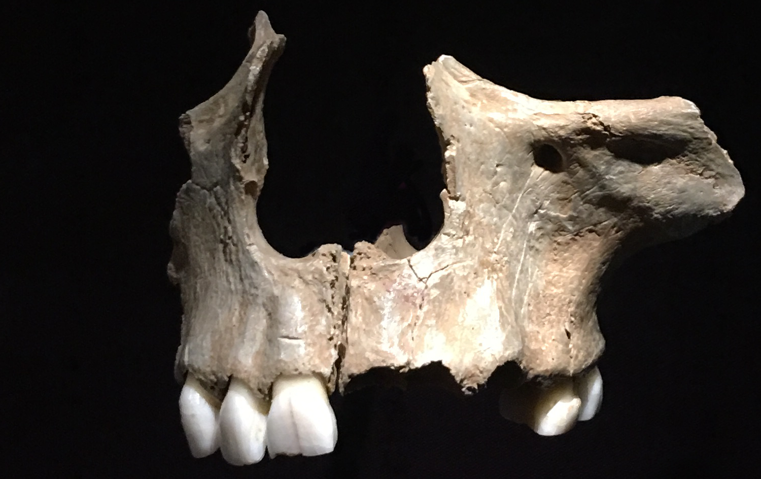 This real maxilla, about 14,700 years from Gough's Cave (Sommerset, England) bears cut marks near the teeth, believed evidence of cannibalism. Natural History Museum, London.